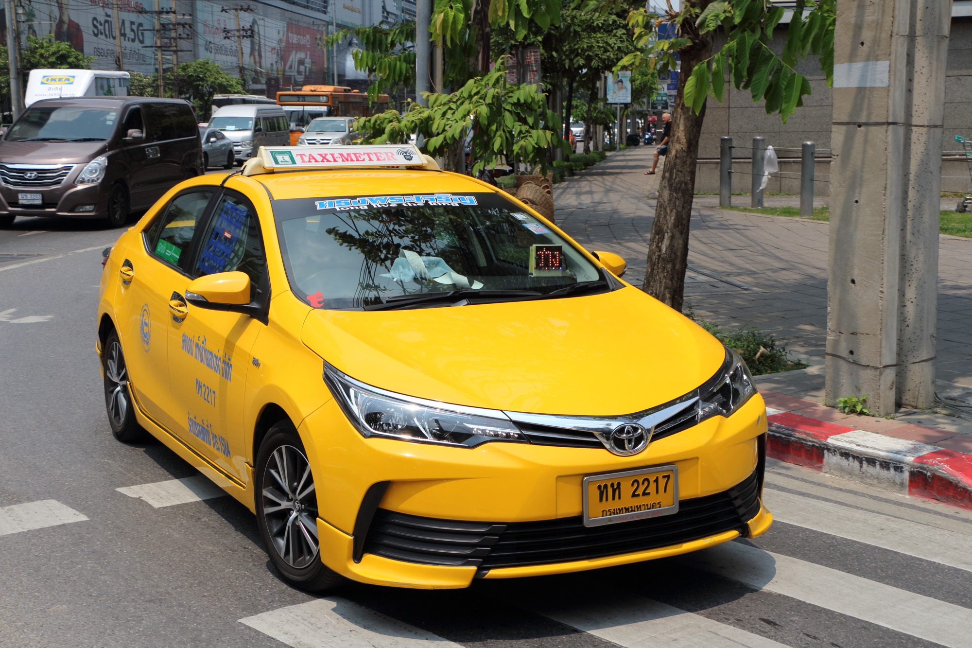 Taxi-meter in Bangkok, Thailand (Toyota Corolla Altis)